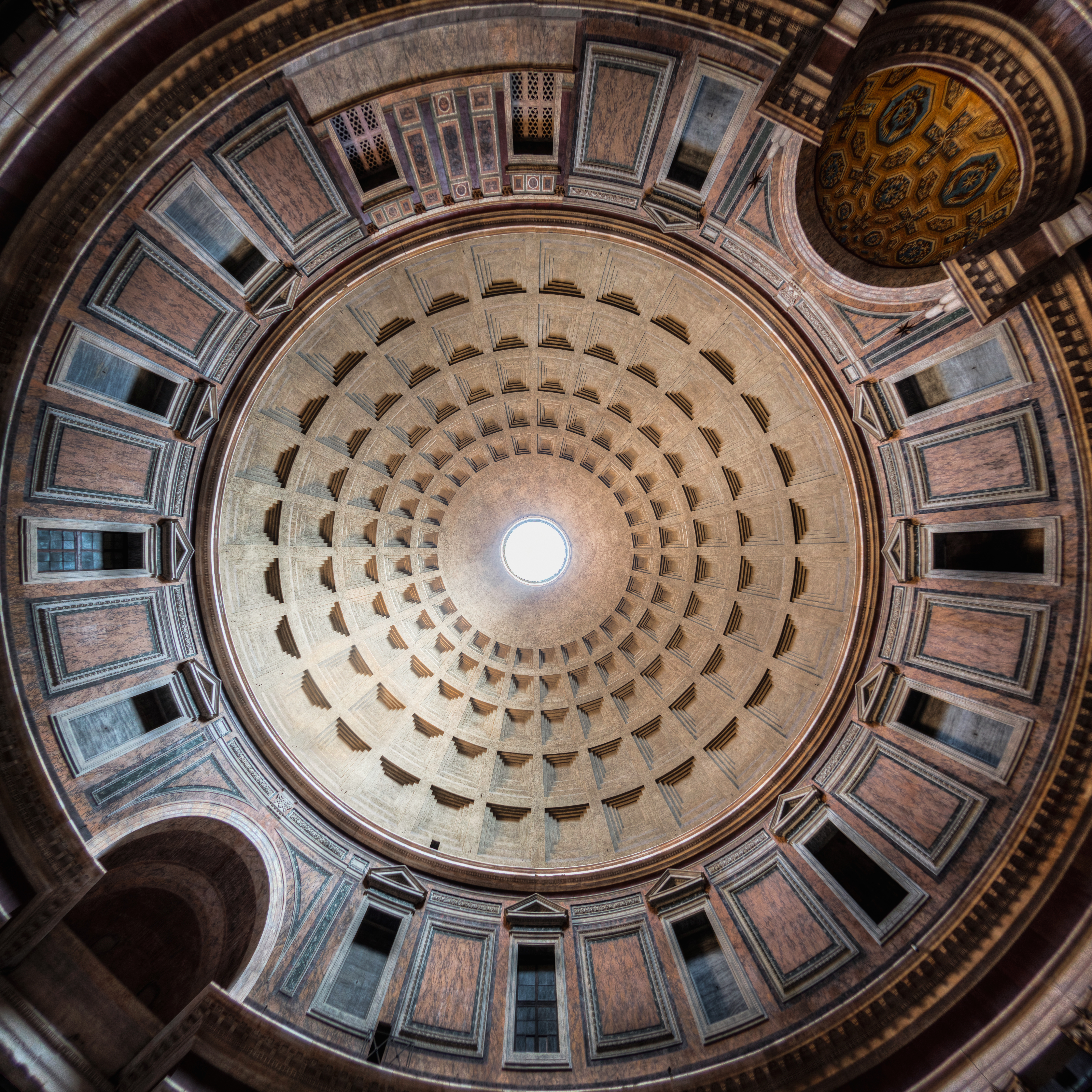 Ceiling of Pantheon, Rome, Italy